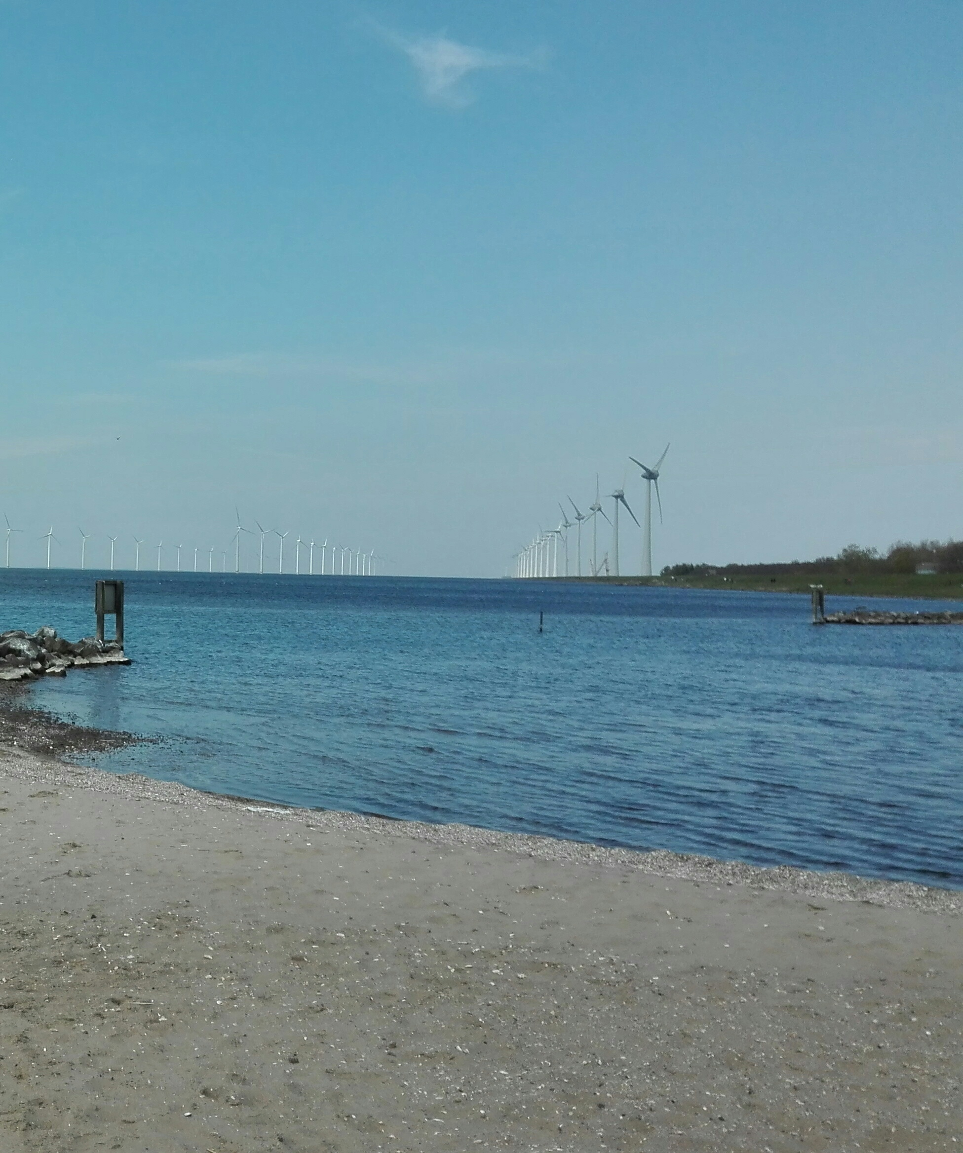 Windpark Noordoostpolder seen from Urk; Windpark Westermeerwind on the left